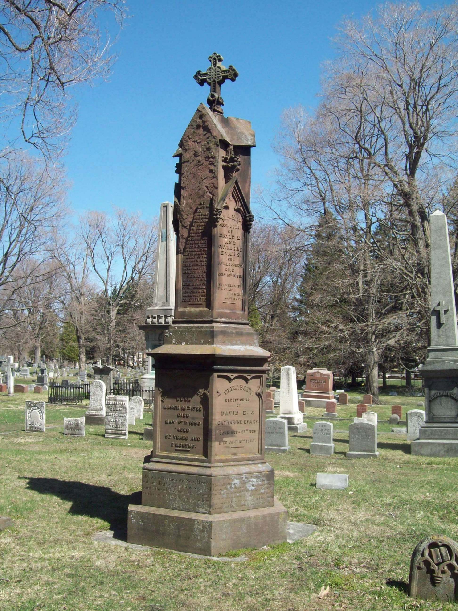 David Ellicott Evans Monument, Batavia Cemetery, Batavia NY, April 2011